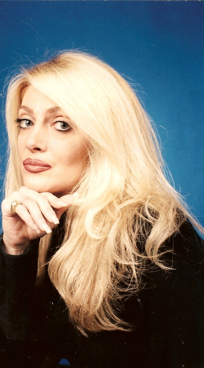 Anahita Khalatbari 1998